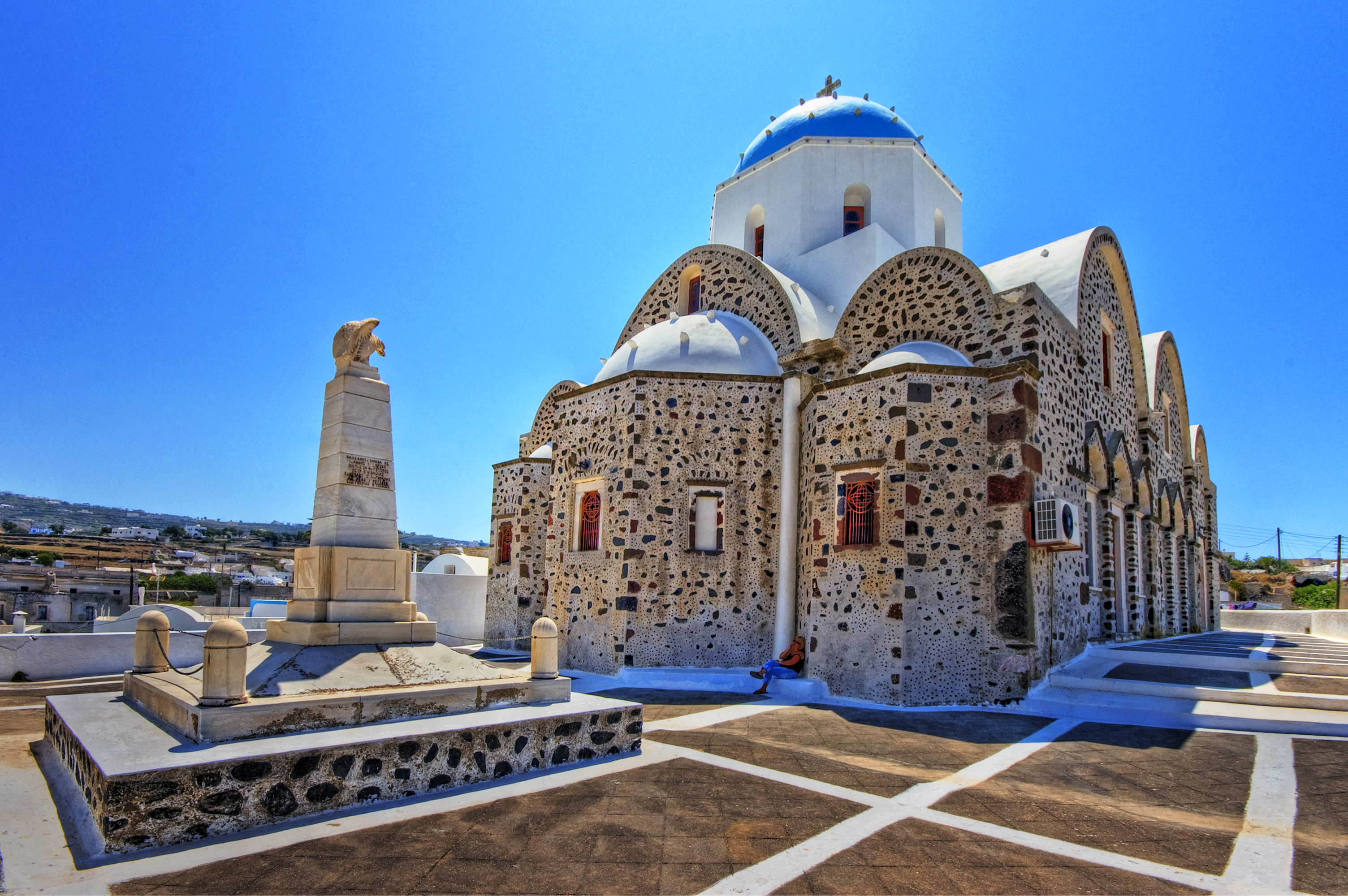 Church at Vothonas, Santorini